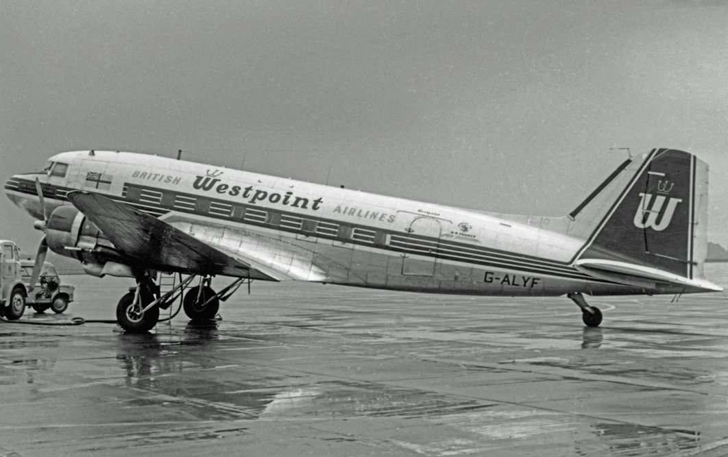 Douglas C-47A Dakota (DC-3) G-ALYF of British Westpoint Airlines at Manchester Airport England in 1965